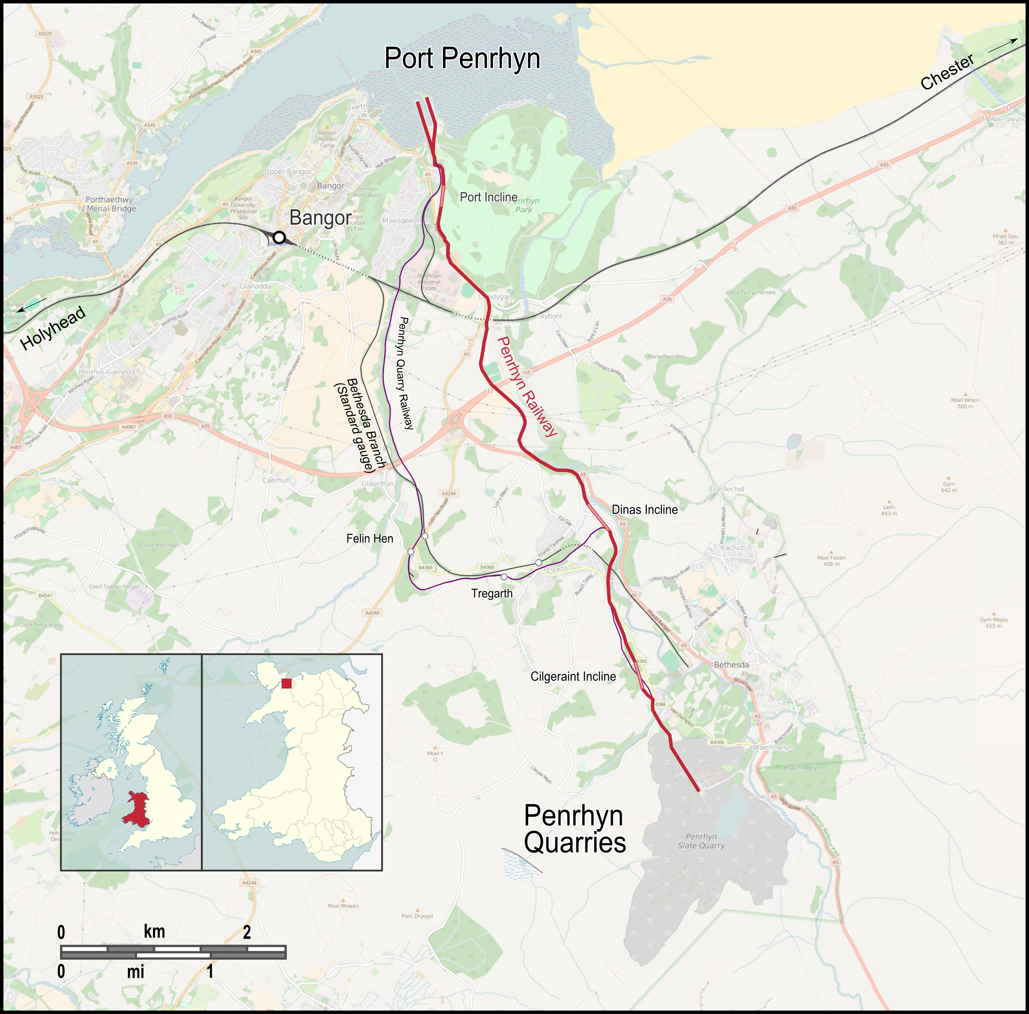 Map of Penrhyn Railway, English labels